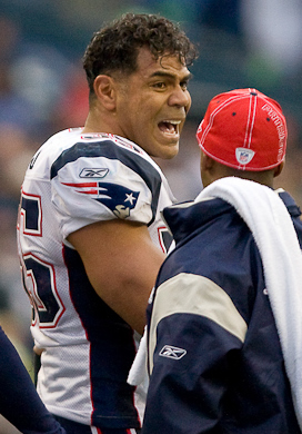 Junior Seau with the New England Patriots